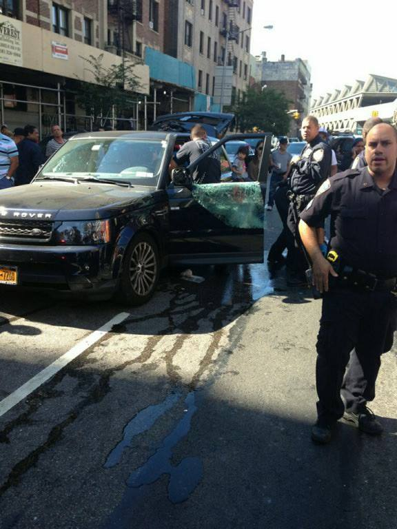 Aftermath showing broken window of Liens SUV